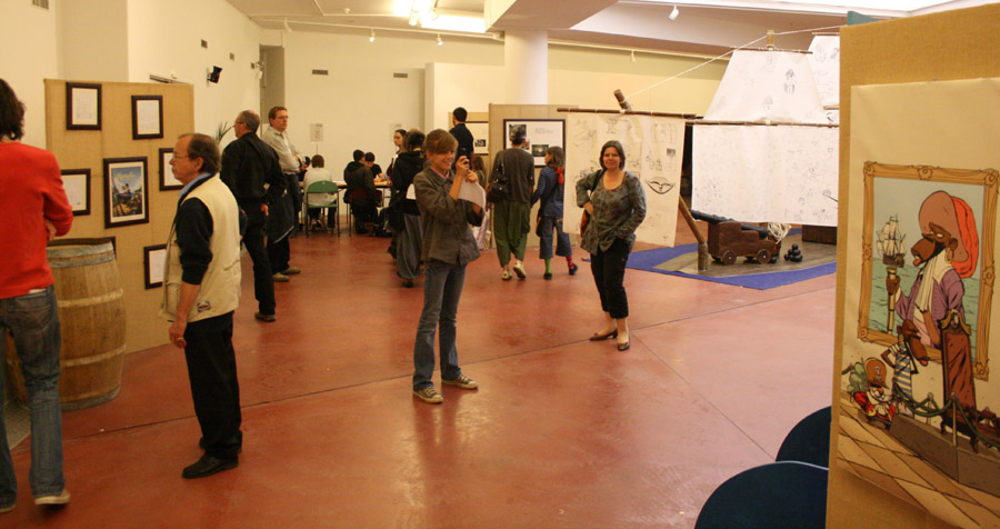 General view of one of the exhibitions of the 13th Amiens comics festival